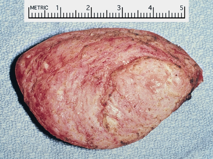 HEART-GREAT VESSELS: CARDIAC RHABDOMYOMA This is a surgically excised specimen (unfixed) from the tumor illustrated in figure 5-3 showing a whitish tan cut surface.